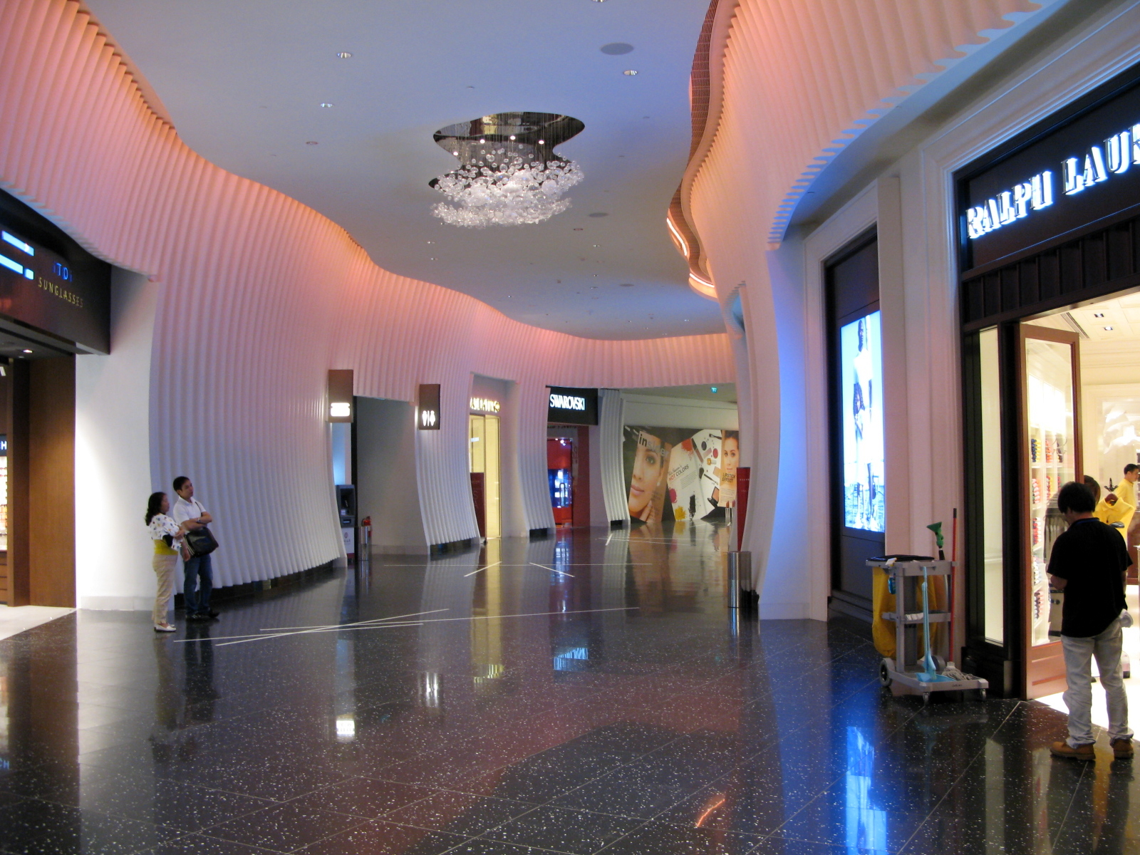 The City of Dreams 200907 新濠天地